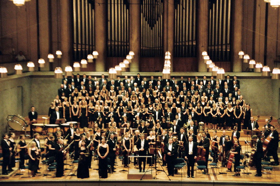 Choir and Orchestra of the Munich University of Applied SciencesConcert in the “Herkulessaal” of the Residence, Munich